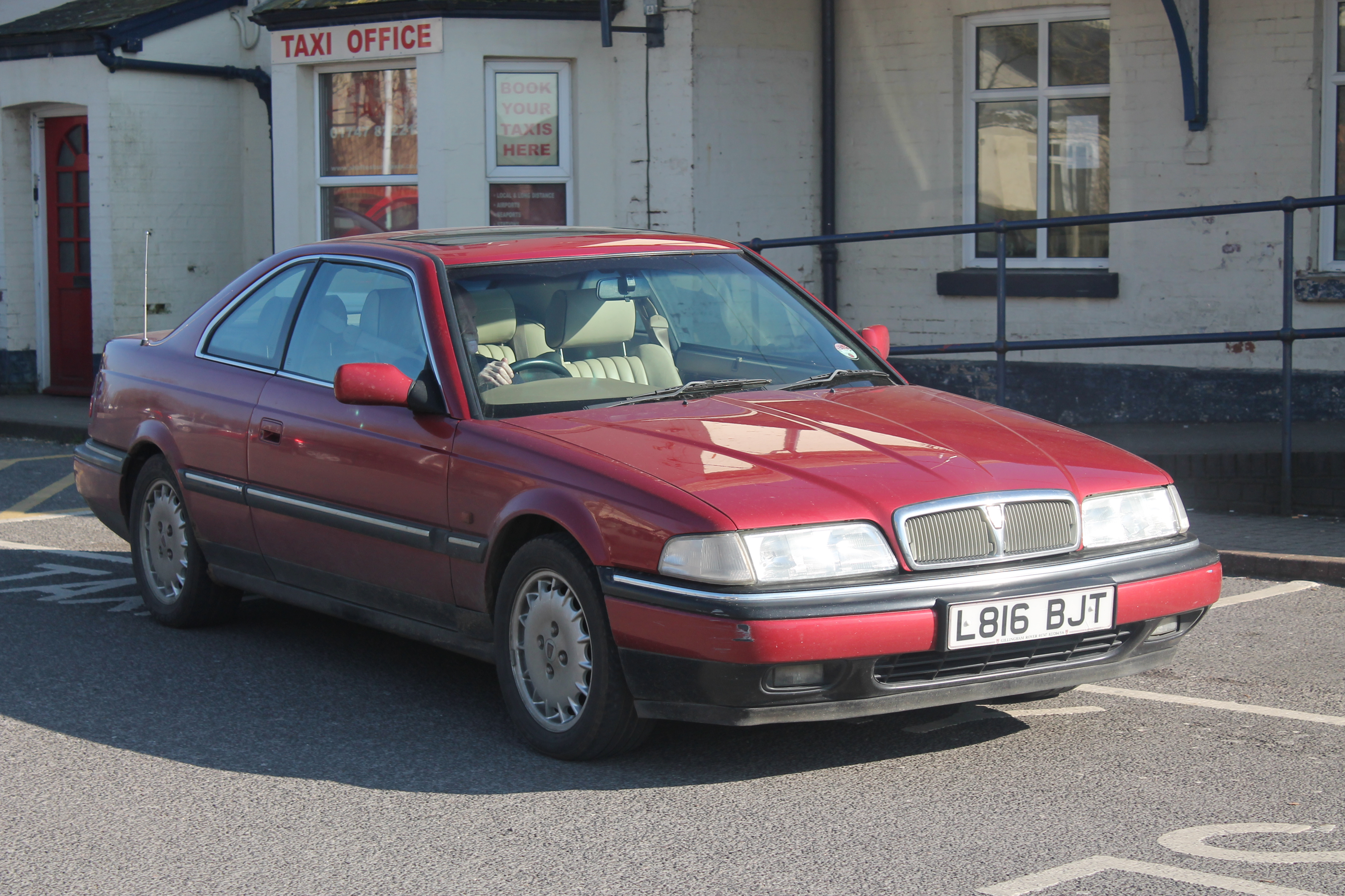 Always nice to see a Rover 800, even more so being a coupe, which is actually quite rare these days. This is also a manual, and I don't think many of these big Rovers came with this. That probably explains why there are only 7 on the roads, and this is one of 4 from 1993. I love the interior of these- it looks very plush and comfortable. This one's still on its original owner! The vehicle details for L816 BJT are: Date of Liability 01 08 2014 Date of First Registration 17 08 1993 Year of Manufacture 1993 Cylinder Capacity (cc) 2675cc CO₂ Emissions Not Available Fuel Type PETROL Export Marker N Vehicle Status Licence Not Due Vehicle Colour RED Vehicle Type Approval Not Available